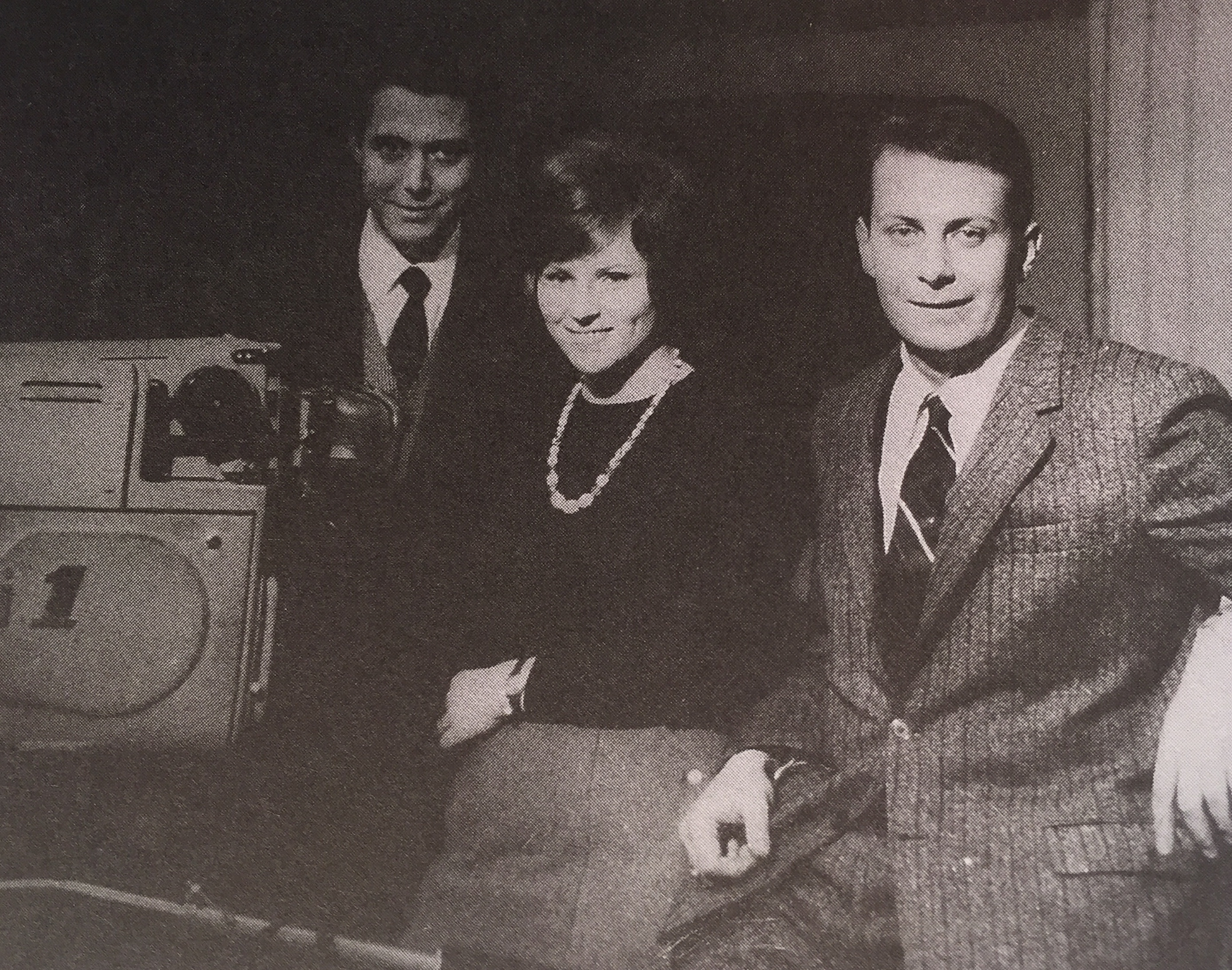 From left to right: Aldo Parmeggiani, Gertrud Mayer (Mair) and Uwe Ladinser, first hosters of the german-speaking TV programs by Rai-Radiotelevisione italiana